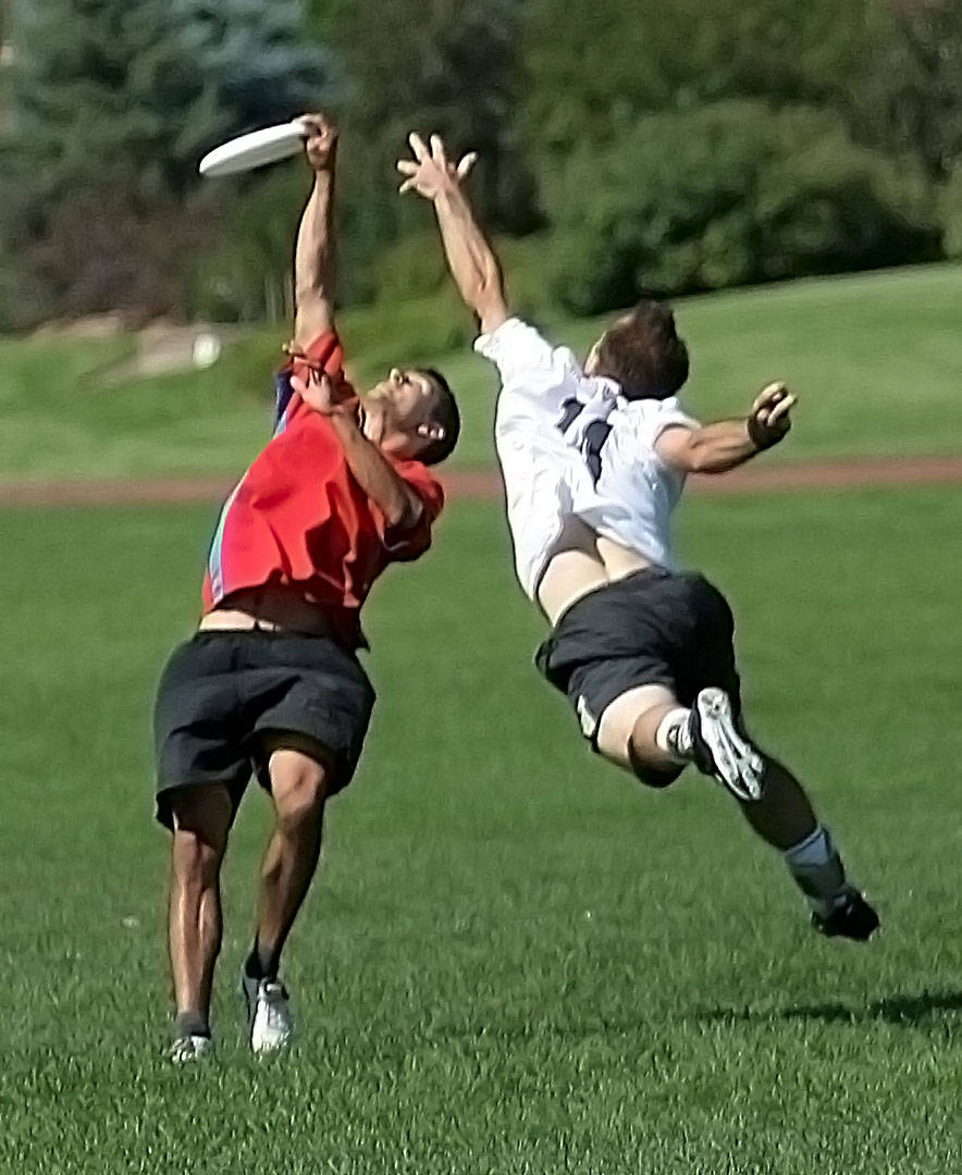 Source: Adam Ginsburg Colorado Cup 2005